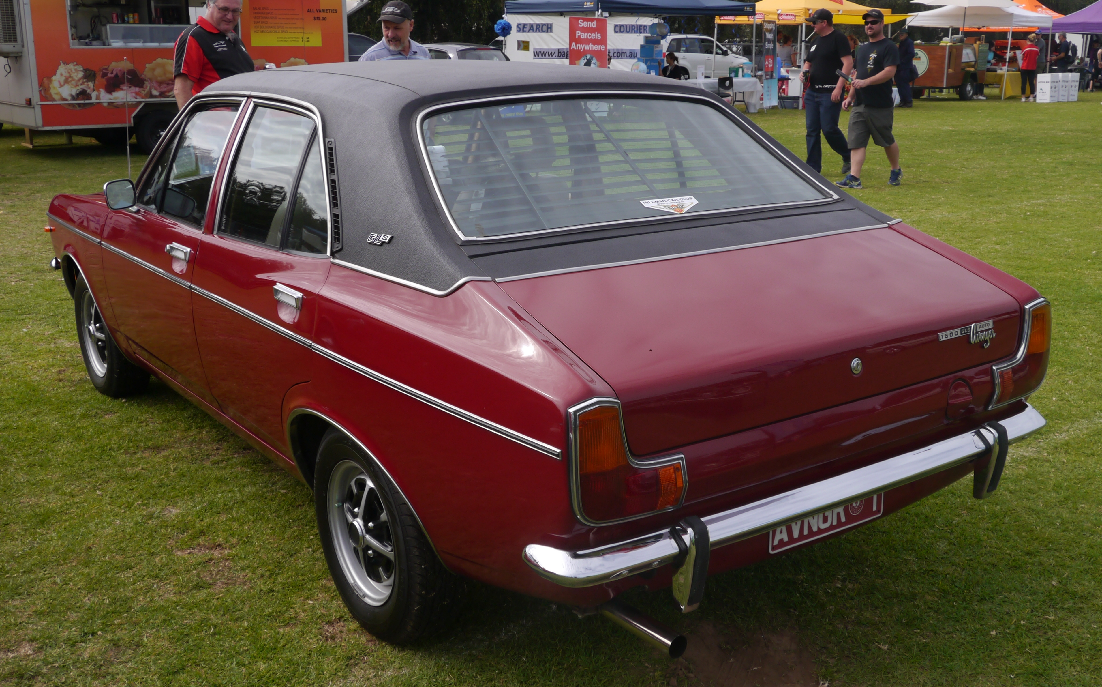 These were never sold in Australia. I've also photographed this car before, some 3 or 4 years ago at another car show.